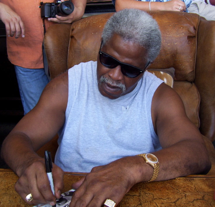 Earl Campbell autograph signing in Kerrville, Texas, to benefit his upcoming DVD, as well as breast cancer research.